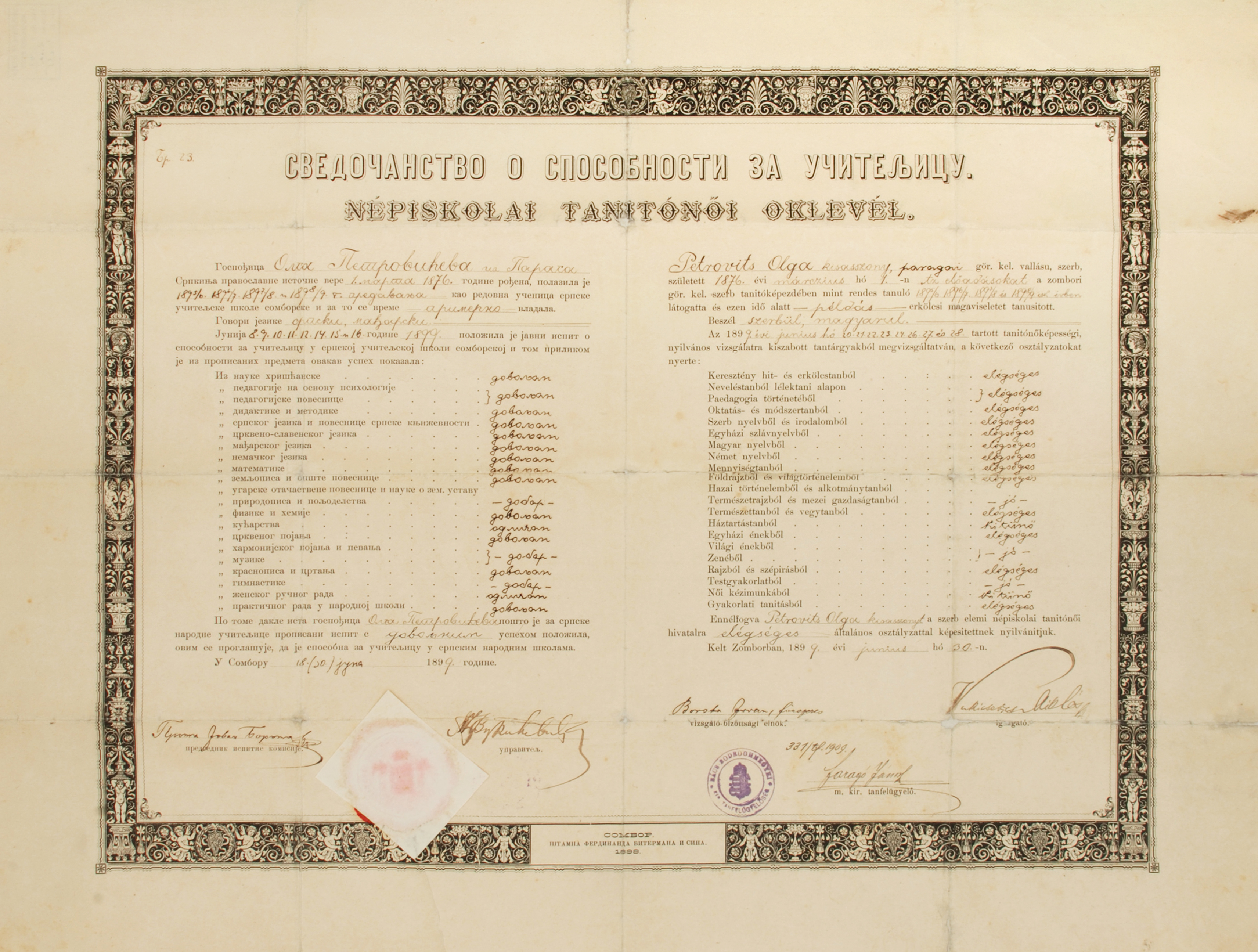 Diploma of Serbian Teacher School in Sombor (1899). Srpski (latinica): Svedočanstvo Srpske učiteljske škole u Somboru (1899).